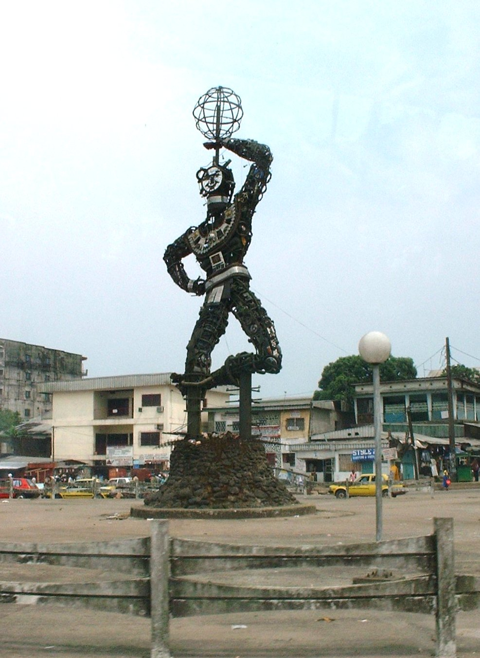 La Nouvelle Liberté (the new statue of liberty) is a public artwork by Joseph-Francis Sumégné located in the roundabout Deïdo in Douala, Cameroon and commissioned and produced by by doual'art in 1996. A twelve meter monumental sculpture produced with recycled materials and positioned in the main roundabout of the neighborhood of Deïdo.